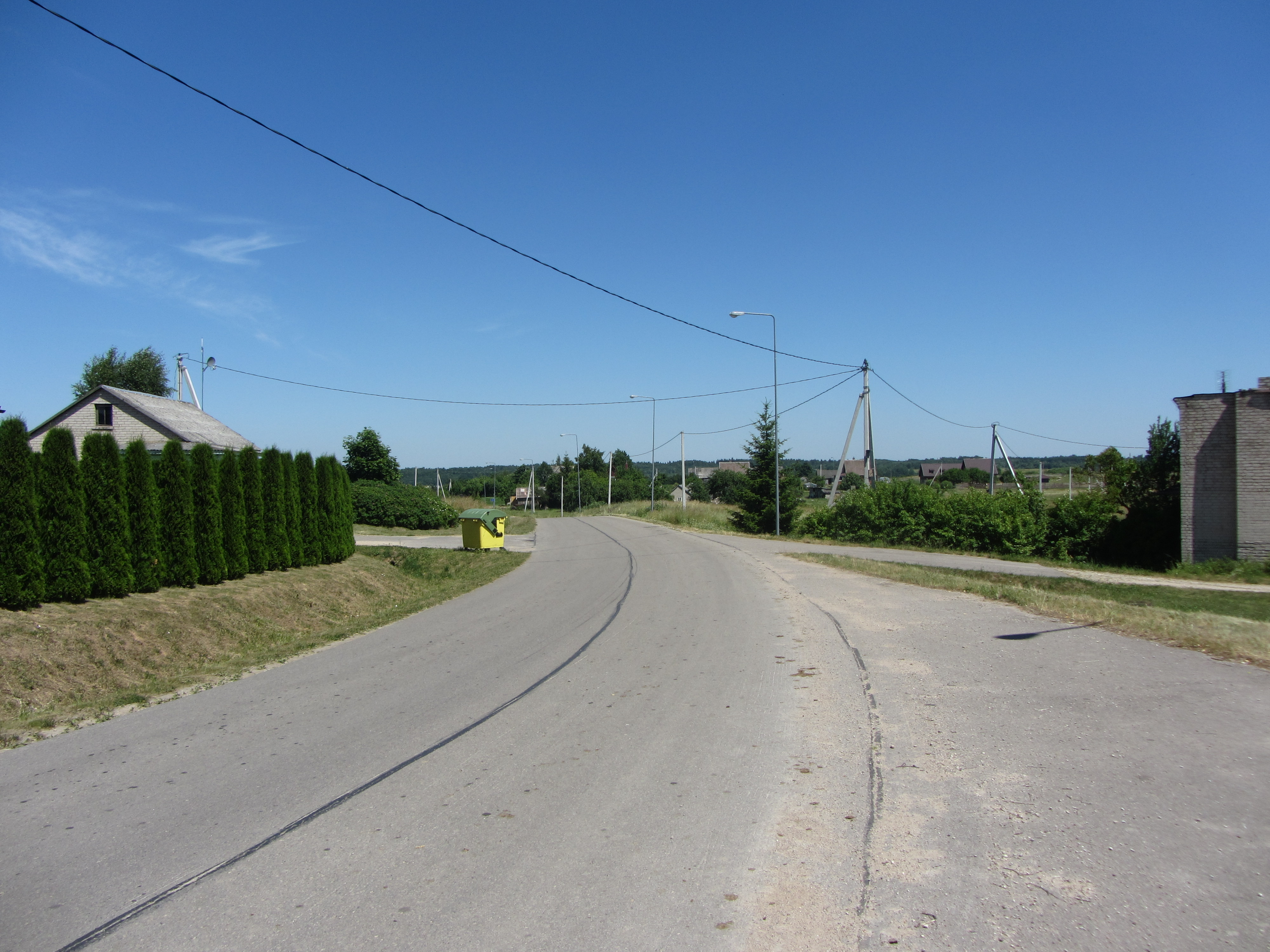 Nemaitonys, Lithuania